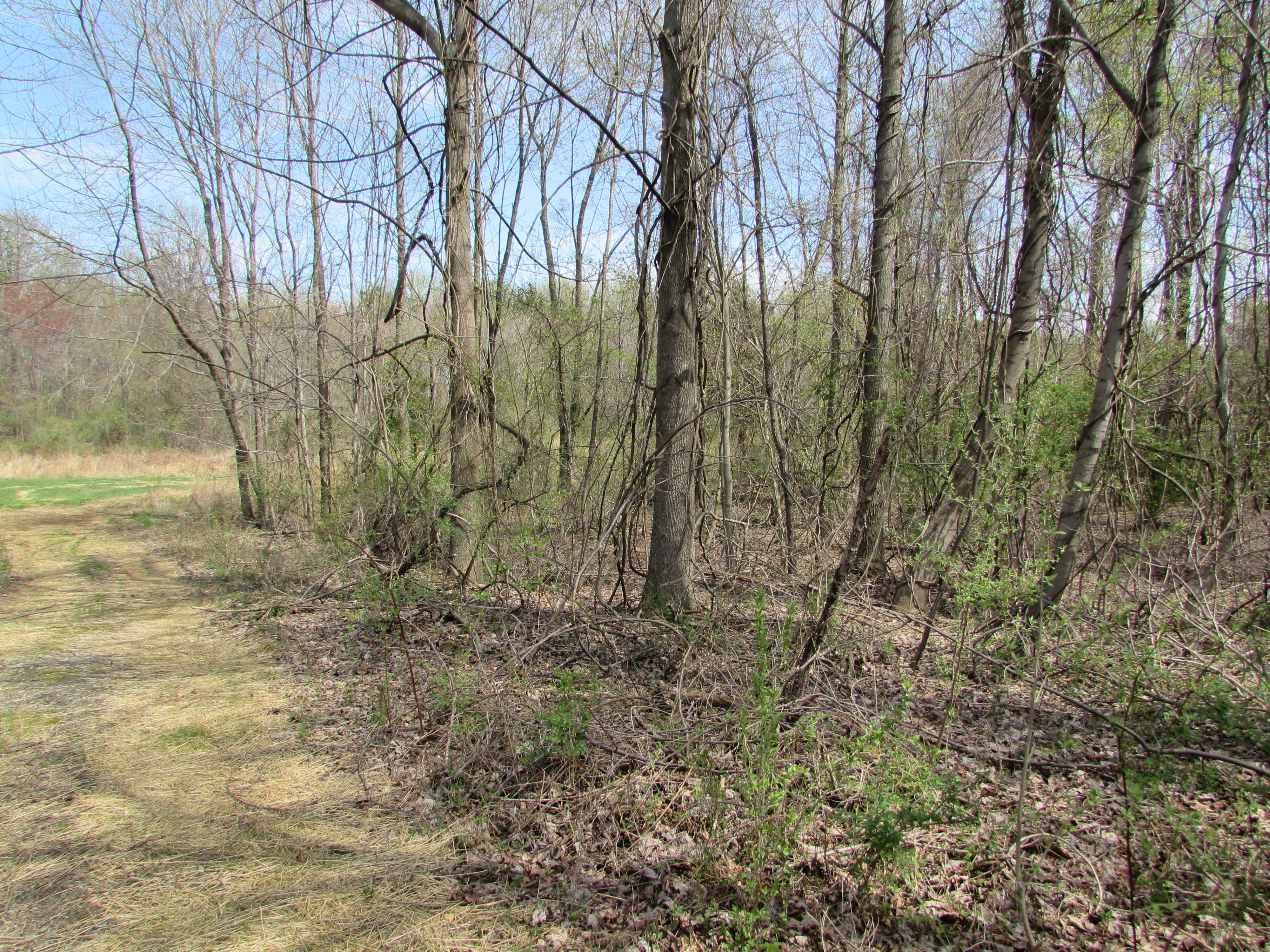 Picture taken in the vicinity of the Clyde Farm archaeological site above Churchmans Marsh, New Castle County, Delaware.